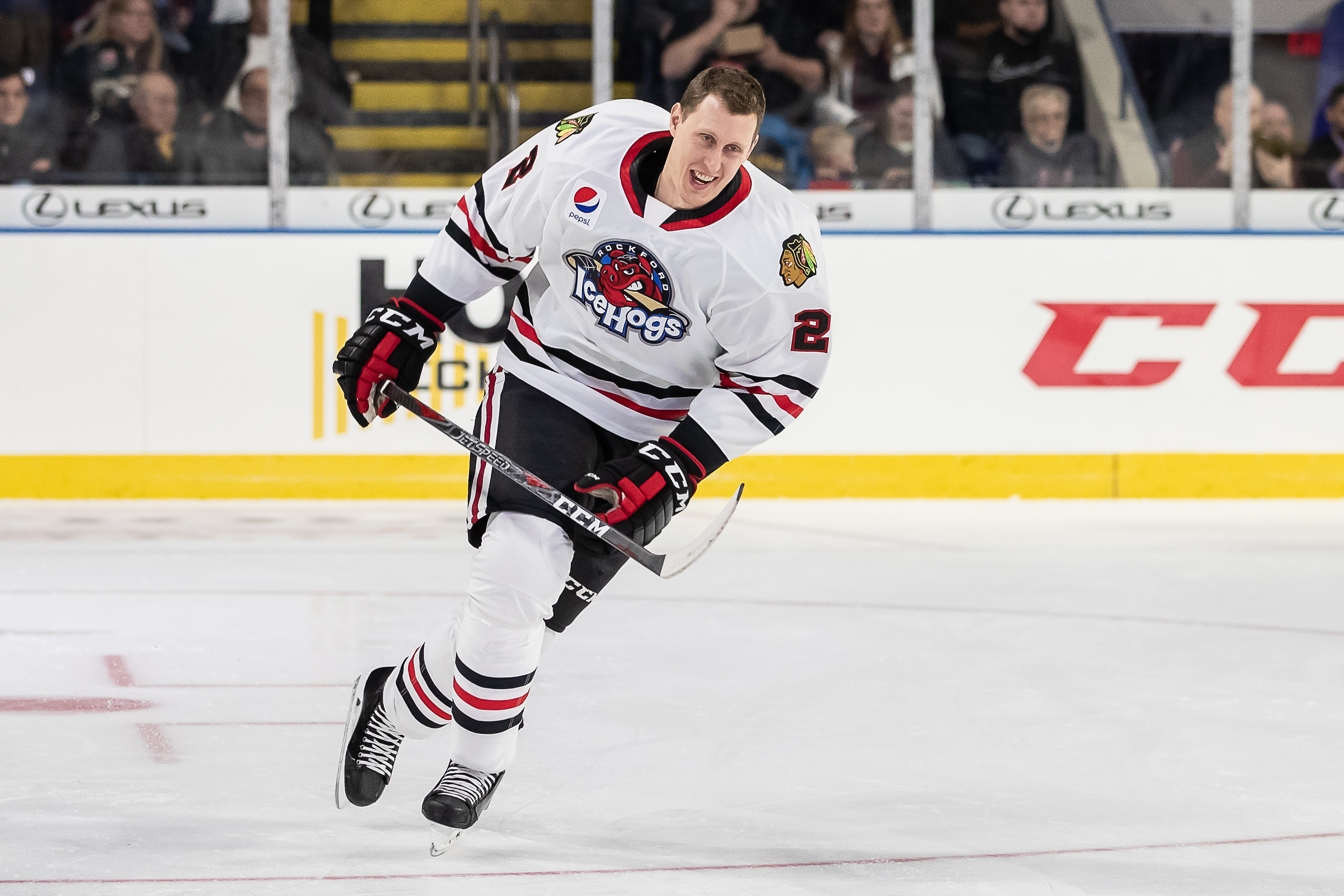 Photo BY: John McCreary / Champion City Sports